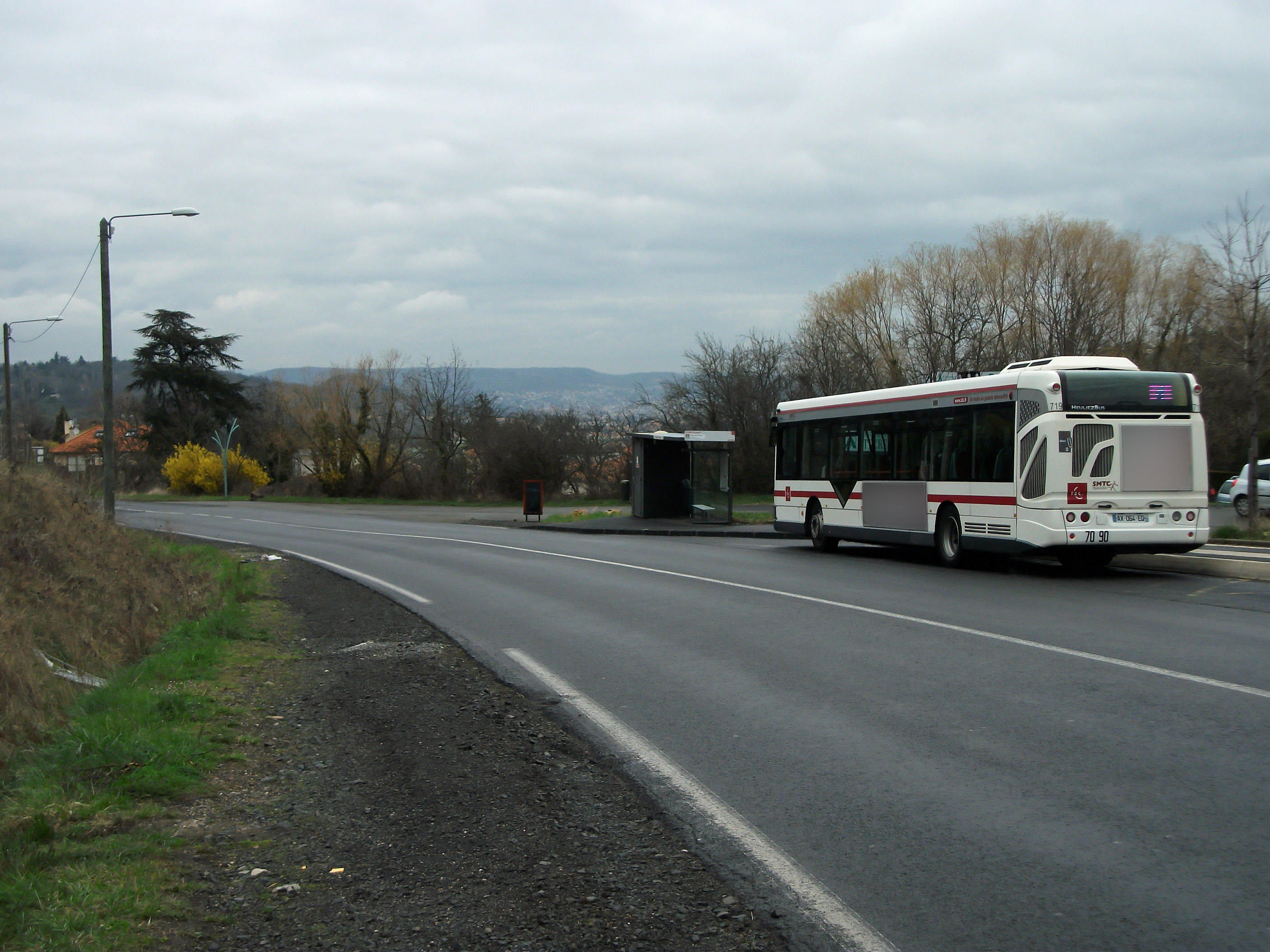 A bus (Heuliez GX 327) parked at Ceyrat Pradeaux terminus, line 4 of T2C network. Elevation: 600 m/1,969 ft—Former route nationale 89 towards town centre and Clermont-Ferrand.